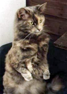 Author: Sarah Hartwell, . Image of Radial Hypoplasia female cat ("squitten" or "twisty cat") photographed in Essex, UK.Messybeast 17:45, 5 October 2006 (UTC)